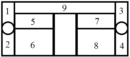 Михайлівський собор (Севастополь)